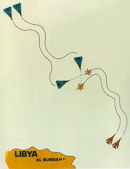 Table showing the interception of two two Libyan Mikoyan-Gurevich MiG-23s by two U.S. Navy Grumman F-14A Tomcats of Fighter Squadron VF-32 "Swordsmen" on 4 January 1989. Aircraft "AC-204" (crew: Lt. Hermon C. Cook/Cdr. Steven Patrick Collins), and "AC-207" (crew: Cdr. Joseph Bernard Connelly/Cdr. Leo F. Enright) shot down the two Libyan MiG-23s.